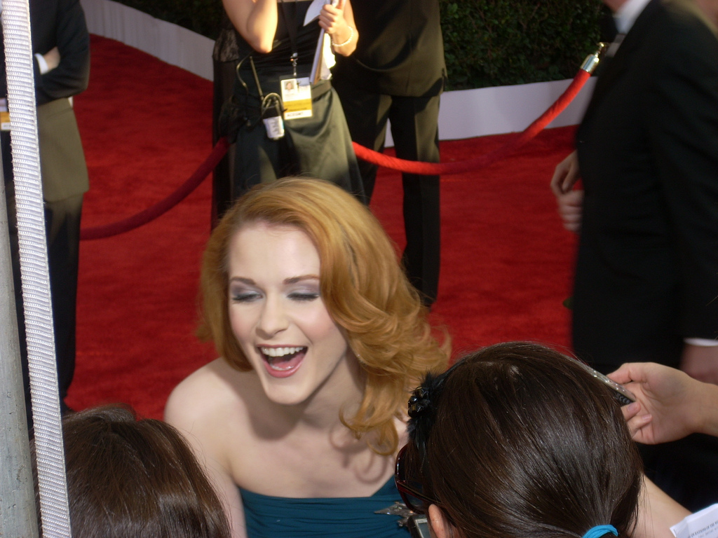 2009 SAG Awards, Shrine Auditorium, Los Angeles - Jan. 25, 2009